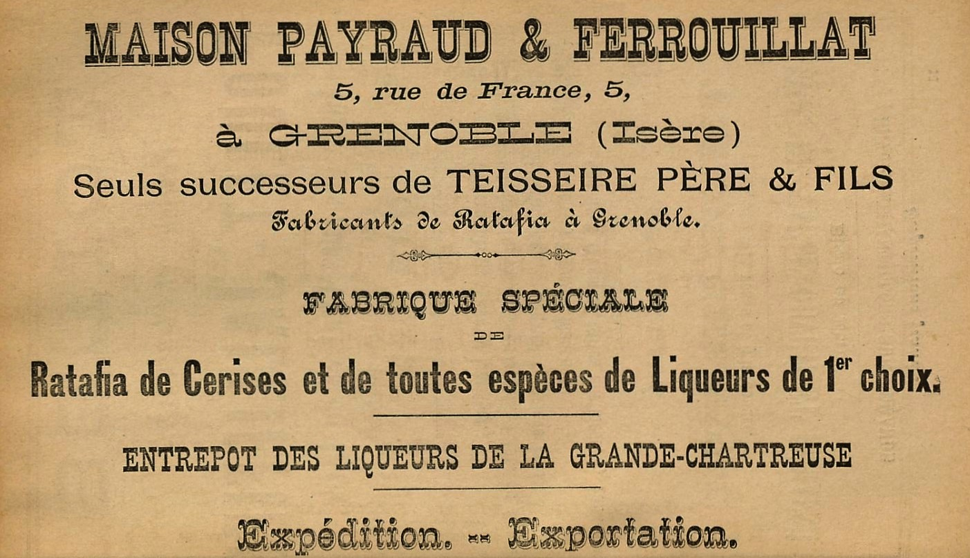 Advertisement for the Grenoble distillers Payraud & Ferrouillat